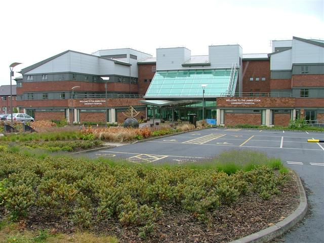 James Cook University Hospital.